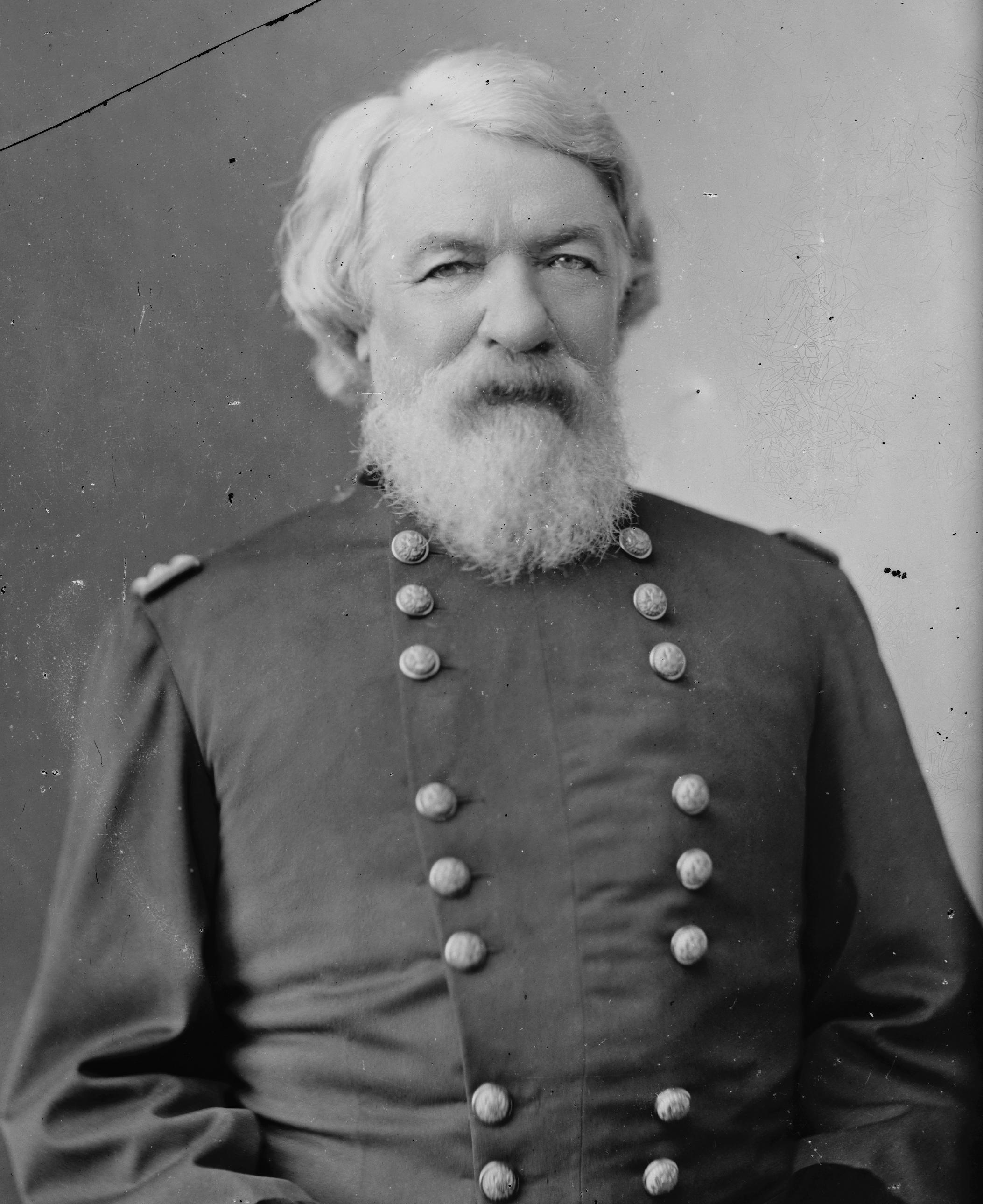 Stewart Van Vliet. Library of Congress description: "Van Vliet, Gen Stewart".